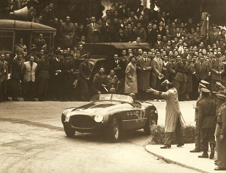 Entry #547 and WINNER of Mille Miglia on 25–26 Aprile 1953 was Giannino Marzotto and co-driver Marco Crosara in the 1953 Ferrari 340MM Vignale Spyder s/n 0280AM.[1]